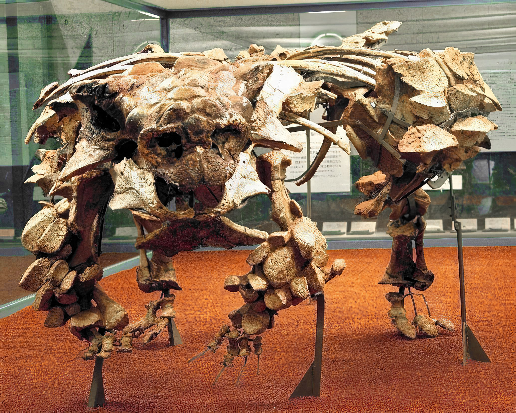 Mounted skeleton of Pinacosaurus specimen MPC 100/1305 with skull cast of Saichania, an ankylosaurid dinosaur from the Upper Cretaceous of East Asia. Dinosaur Kingdom, Nakasato, Japan.